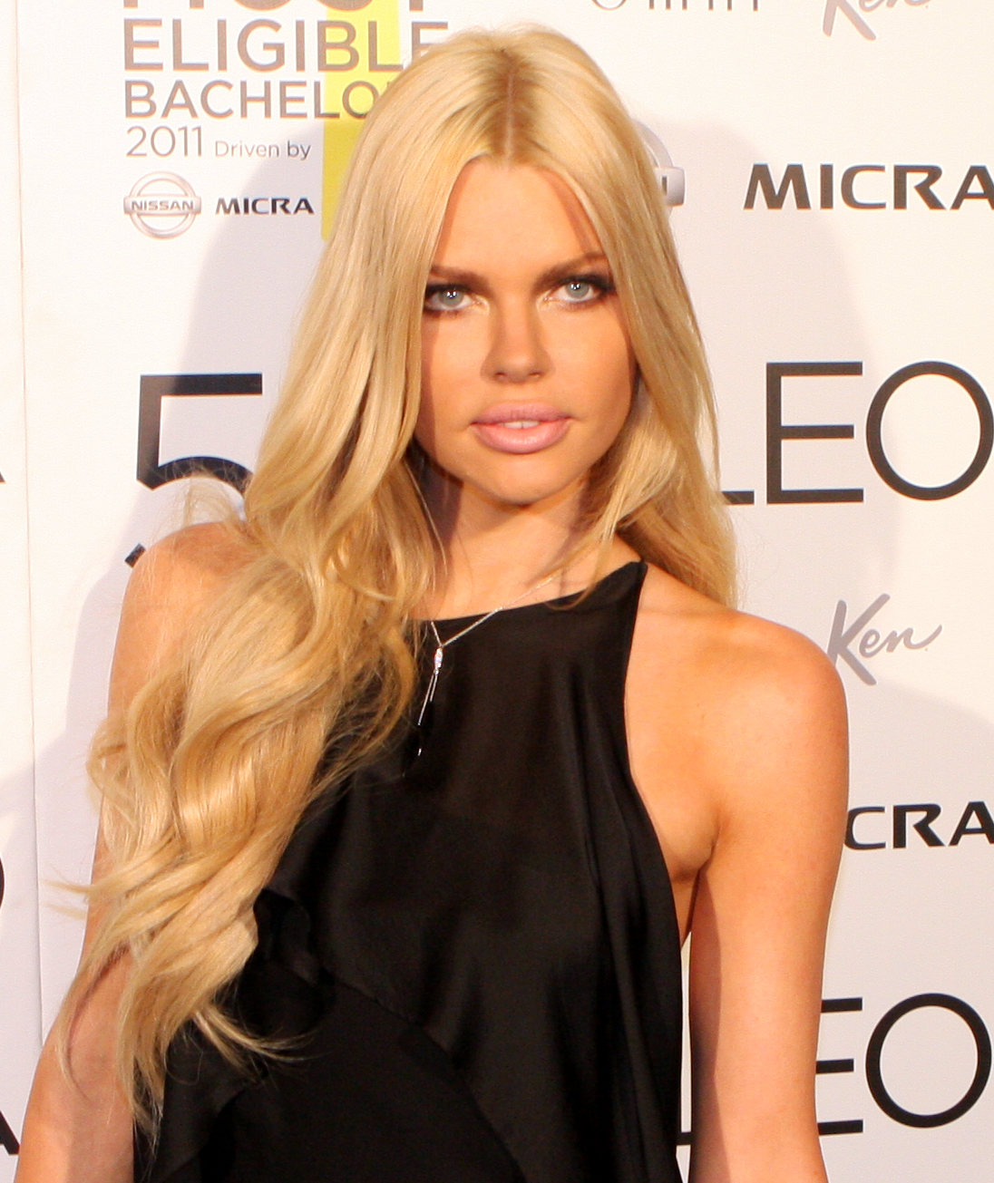 Sophie Monk at the 2011 Cleo Bachelor of the Year in Sydney, Australia.